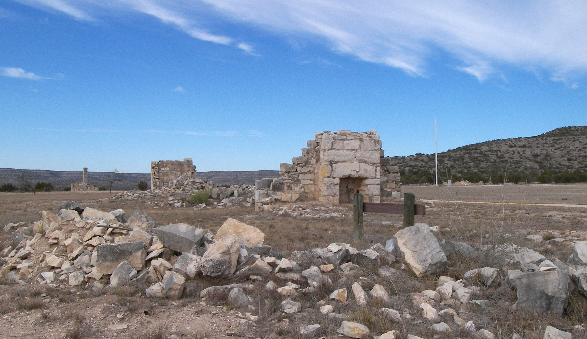 The ruins of Fort Lancaster, Crockett County, Texas, United States. The fort was listed on the National Register of Historic Places on March 11, 1971.